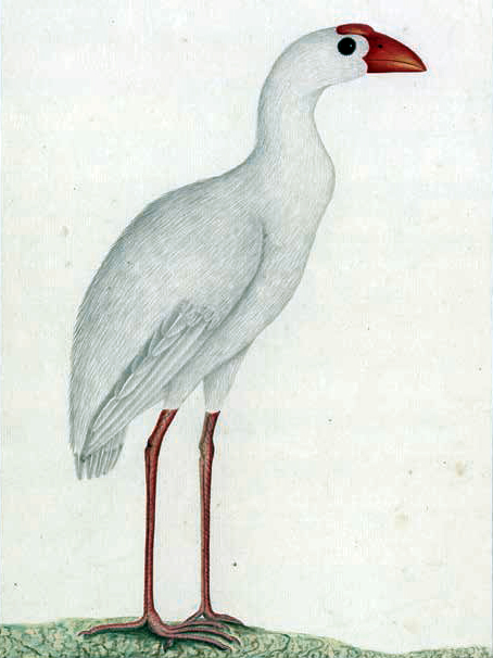 Presumably live Lord Howe swamphen.